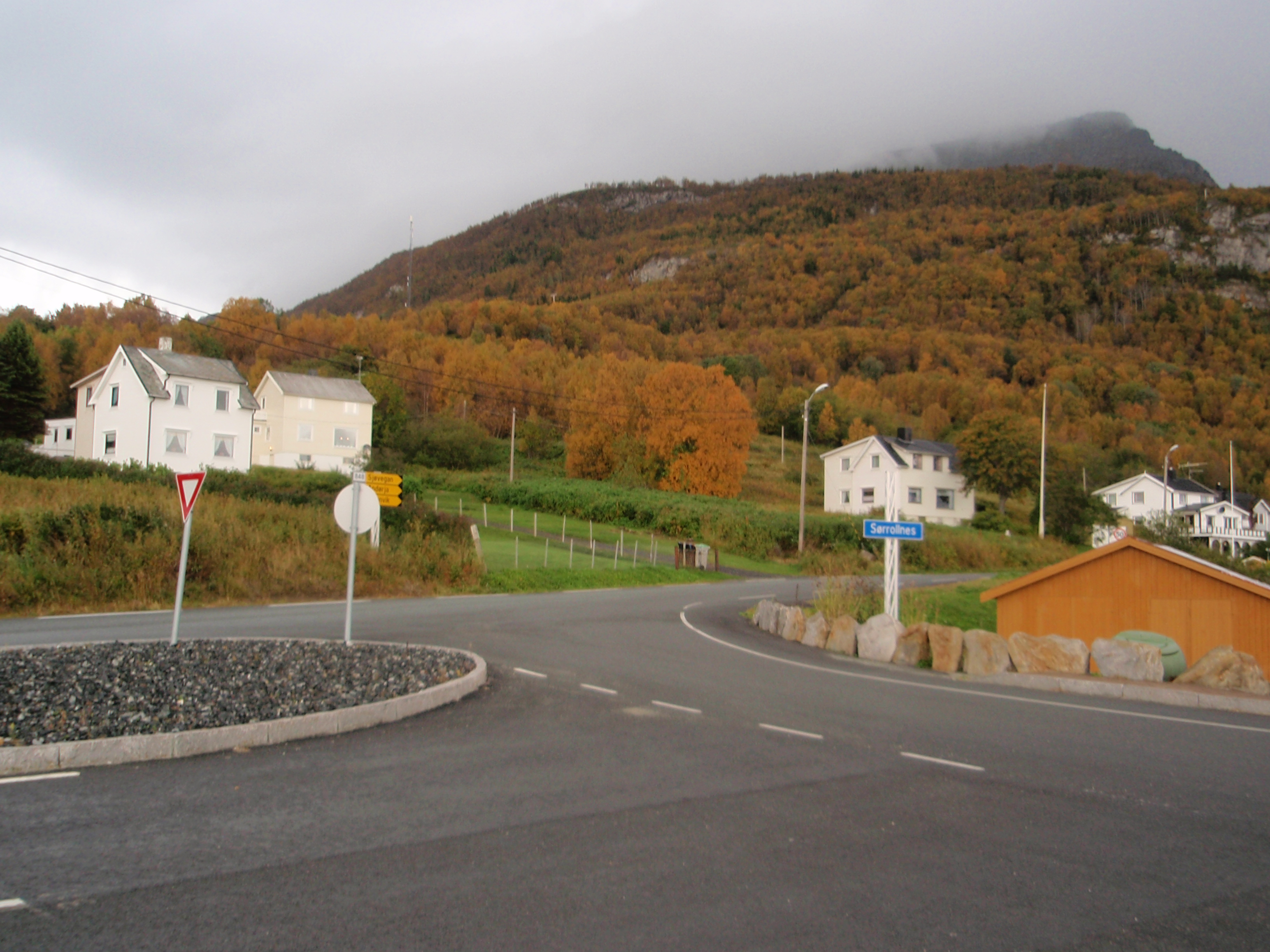 The village of Sørrollnes in Ibestad, Troms, Norway. Photo taken from the ferry port.